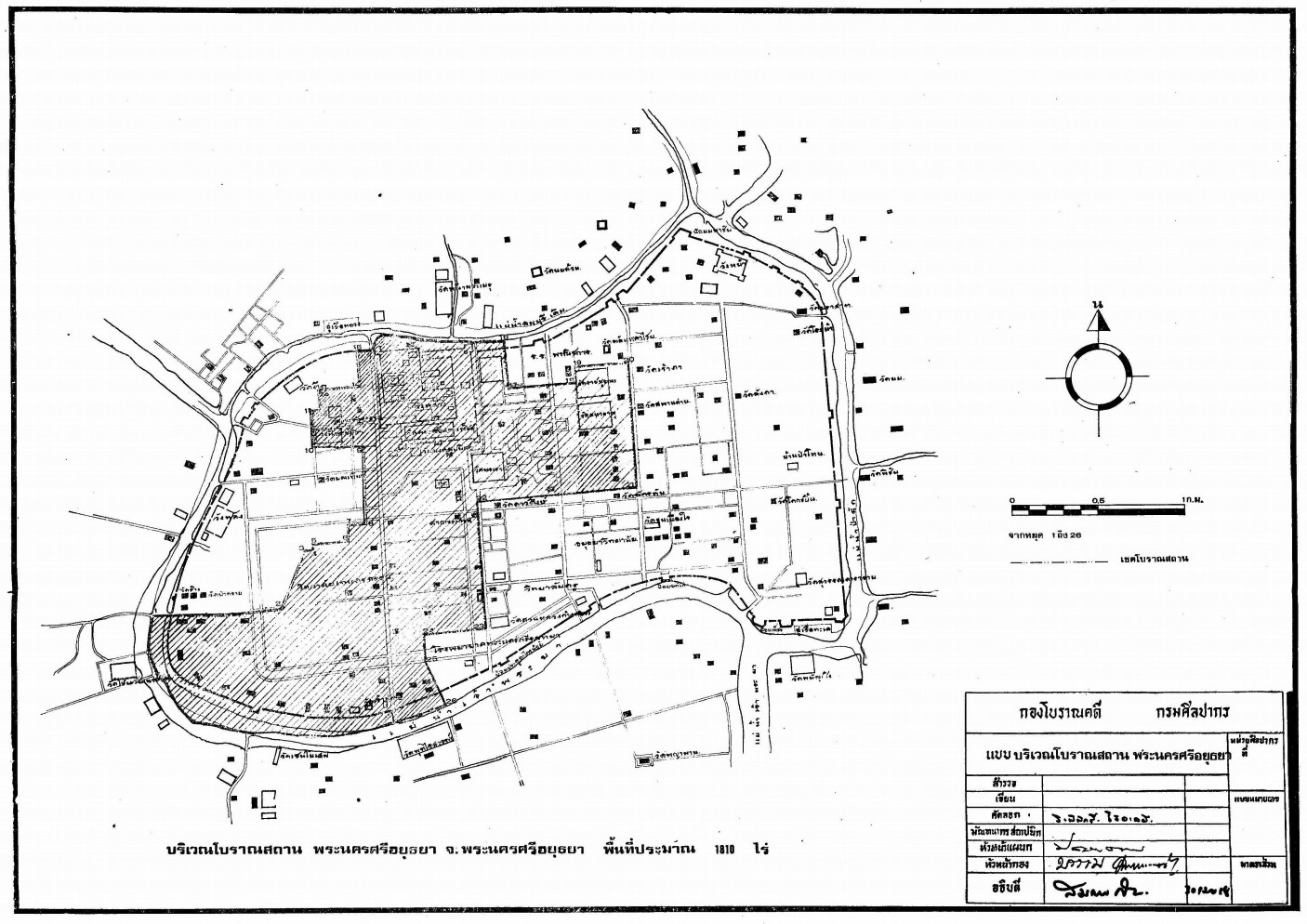 UNESCO World Heritage Site, Map of Historical Ayutthaya, giving dimension as 1810 Rai, (724 acres or 2,896,000 sq Mtrs). This map undated.